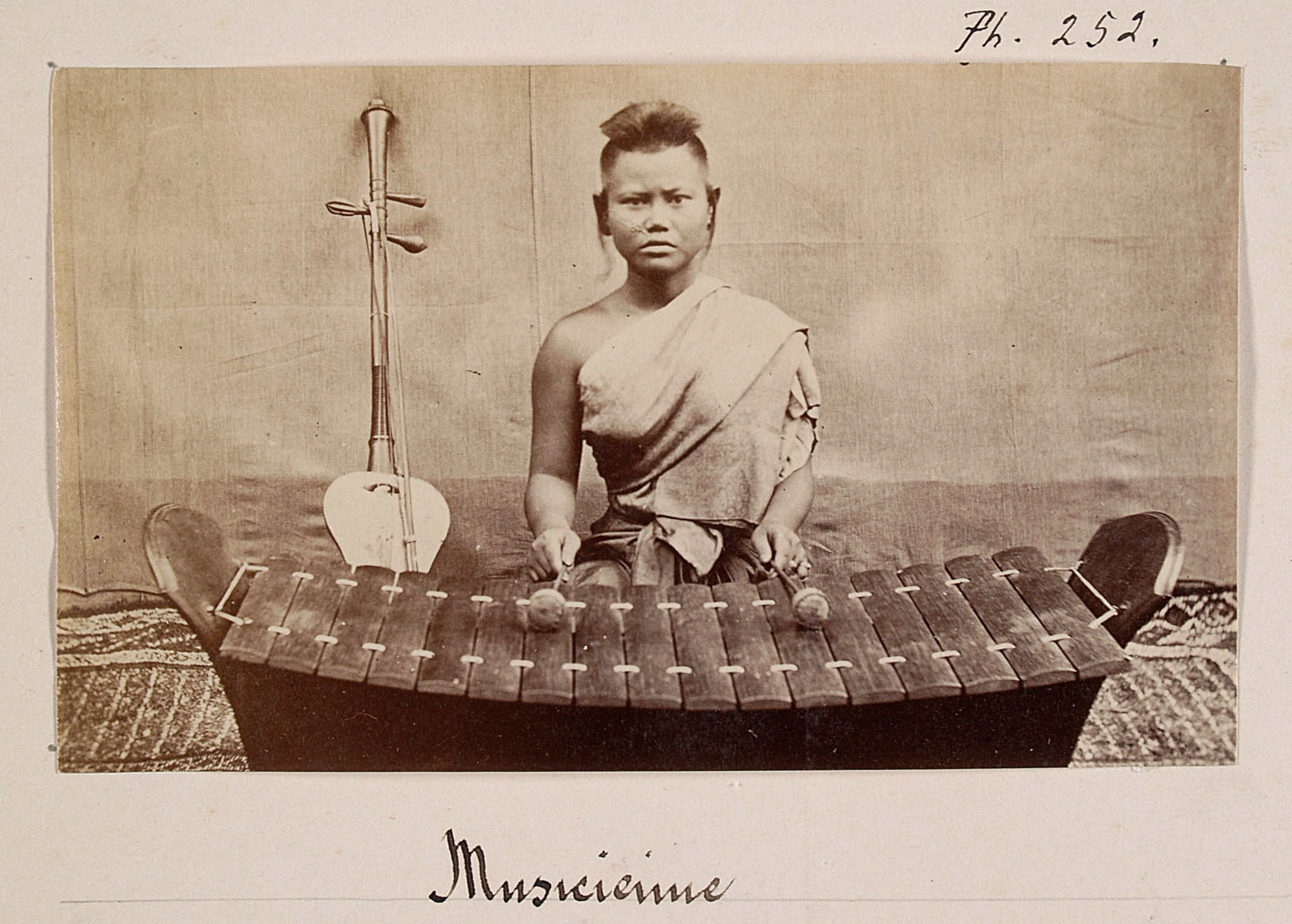 Khmer female musician taken by Emile Gsell, mid 1800s. Cambodia OLYMPUS DIGITAL CAMERA